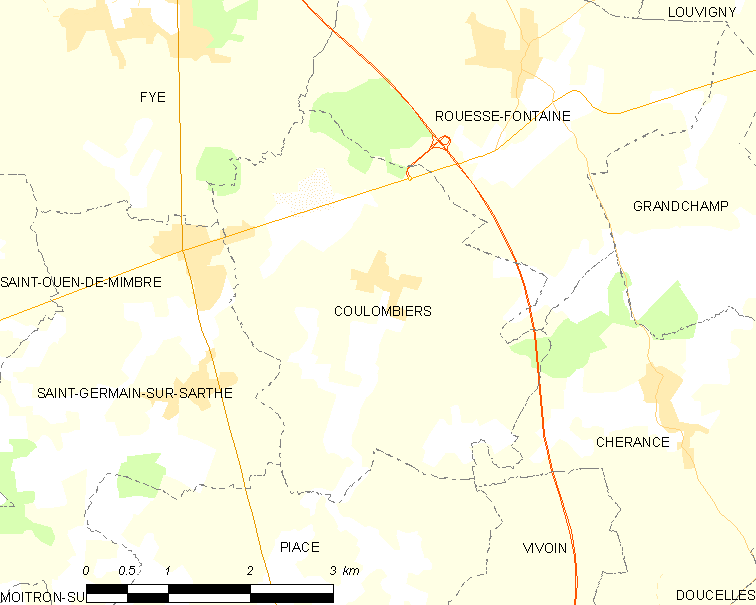 Map of French municipality